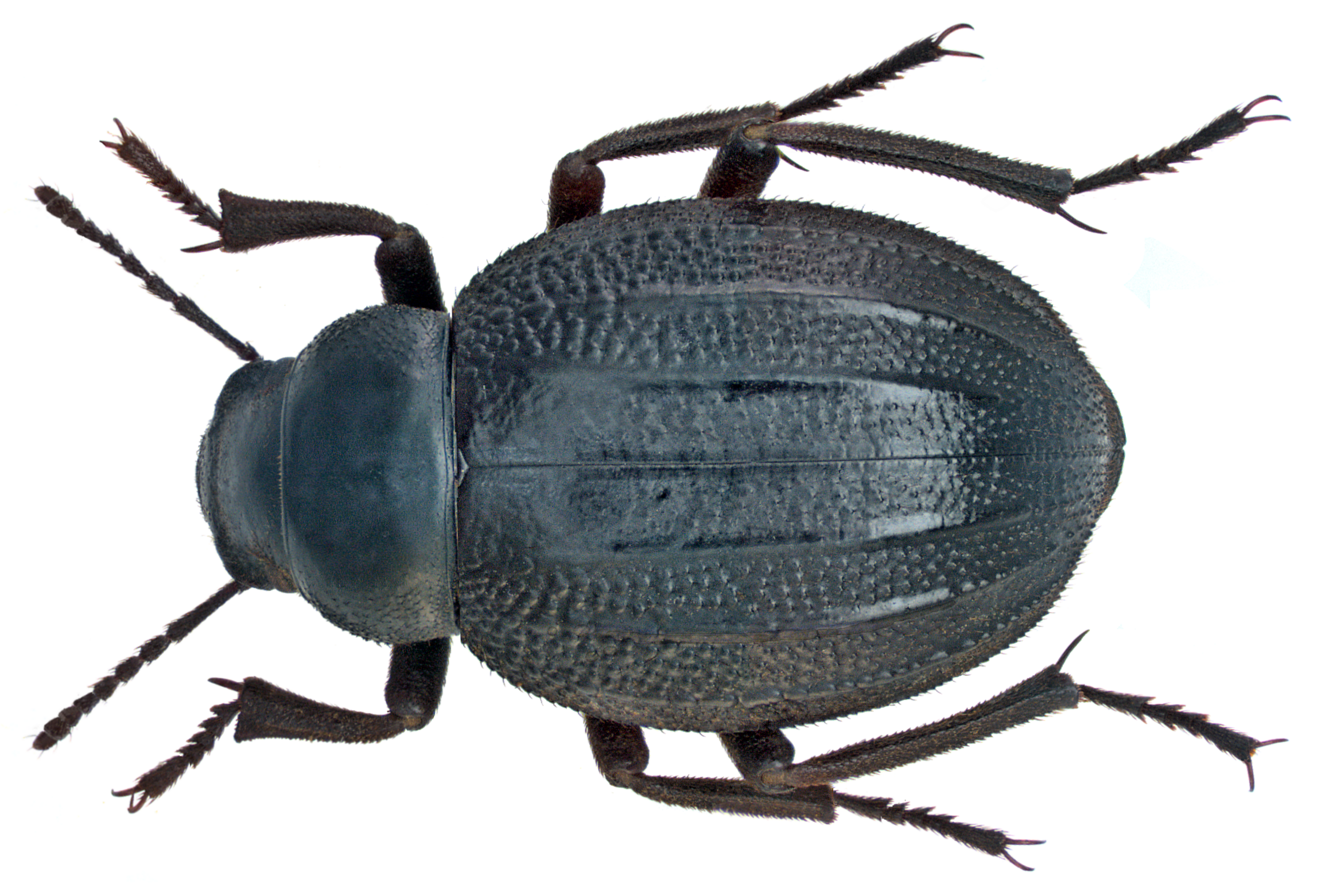 Family: Tenebrionidae Size: 20,0 mm Location: Spain, Canary Islands, Tenerife, El Portillo, N.Obs.Met.Mont.d. Limon, 1980 m leg. J.Schoenfeld, 5.X.2001; det. J.Schoenfeld, 2002 Photo: U.Schmidt, 2014